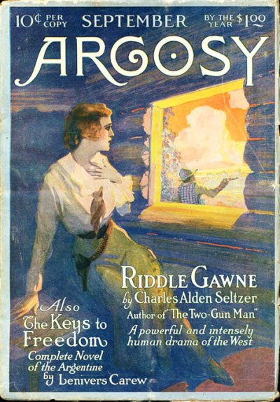 The Argosy, September 1917